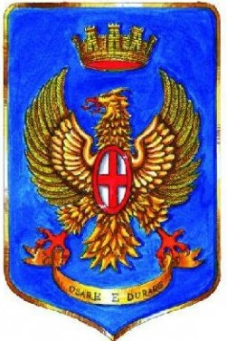 Coat of arms of the National Alumni Military School Teulié.